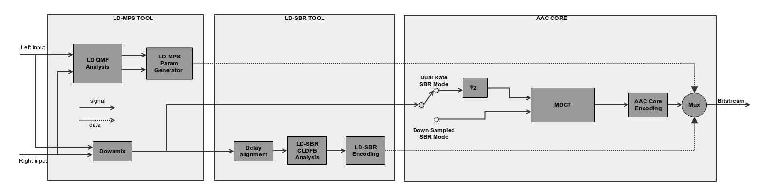 block diagram of AAC-ELD v2 encoder